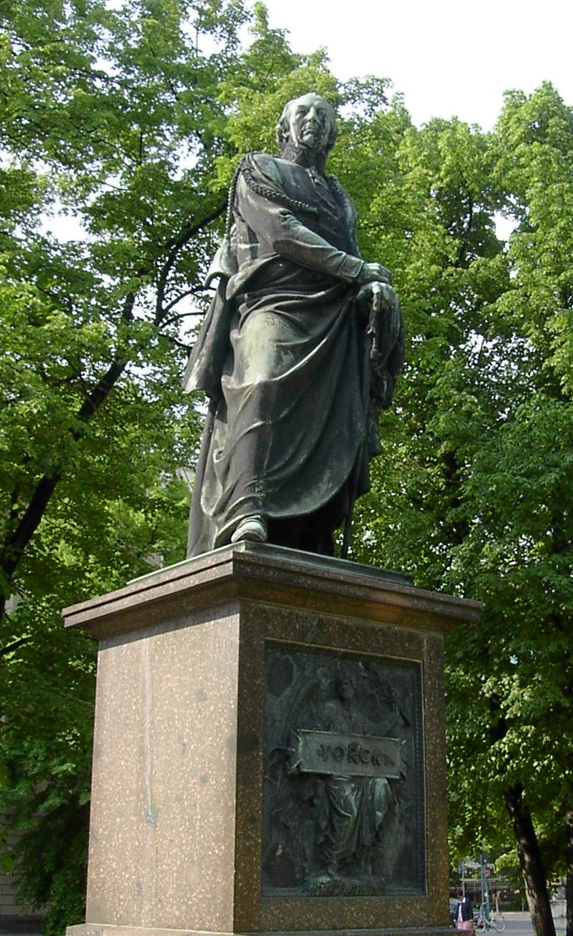 Statue of Hans David Ludwig Yorck von Wartenburg in Berlin, Unter den Linden . The statue was created in 1855 by sculptor Christian Daniel Rauch (1777-1857).